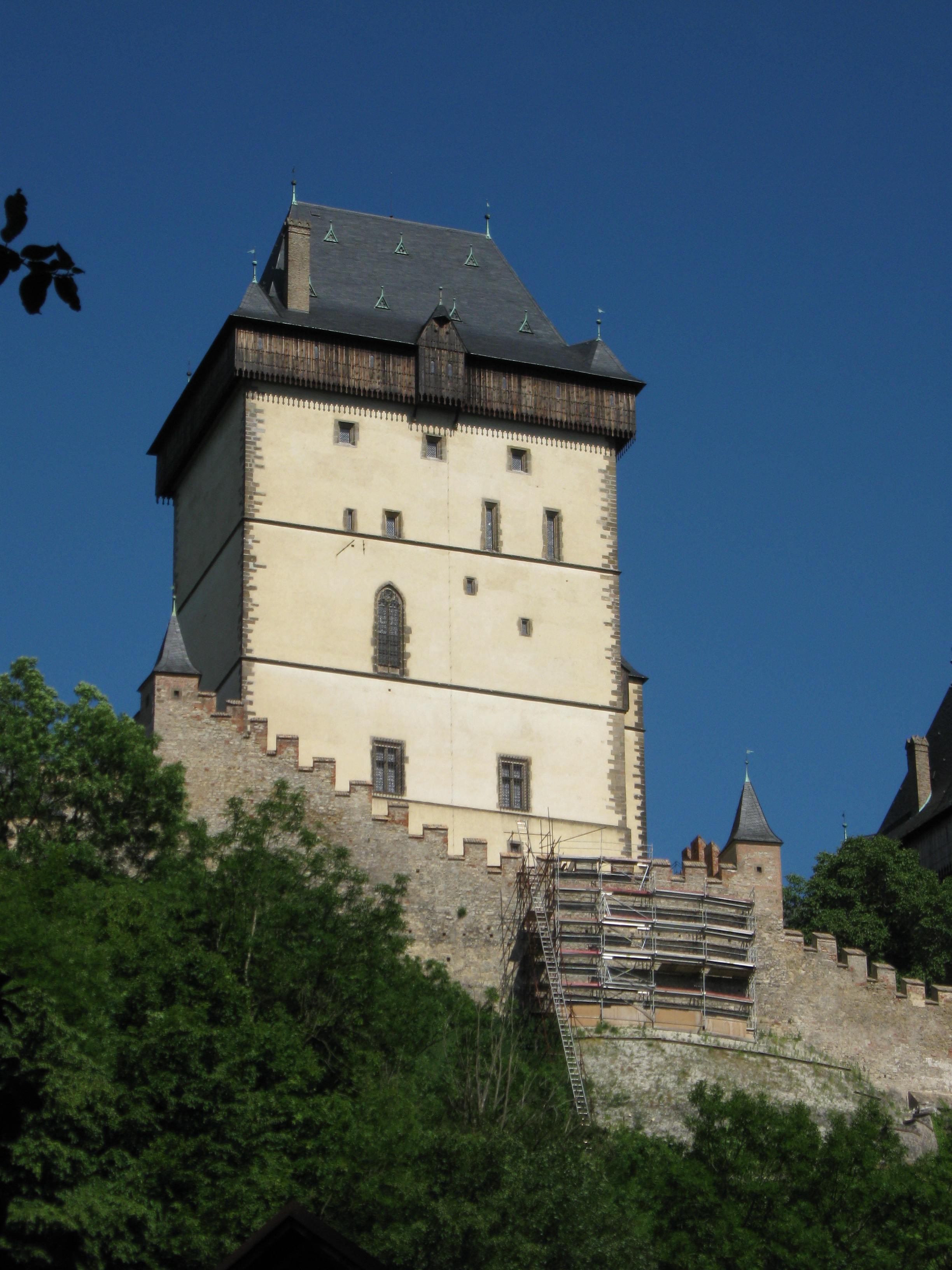 Carlstein Castle, Karlštejn, Czech Republic.